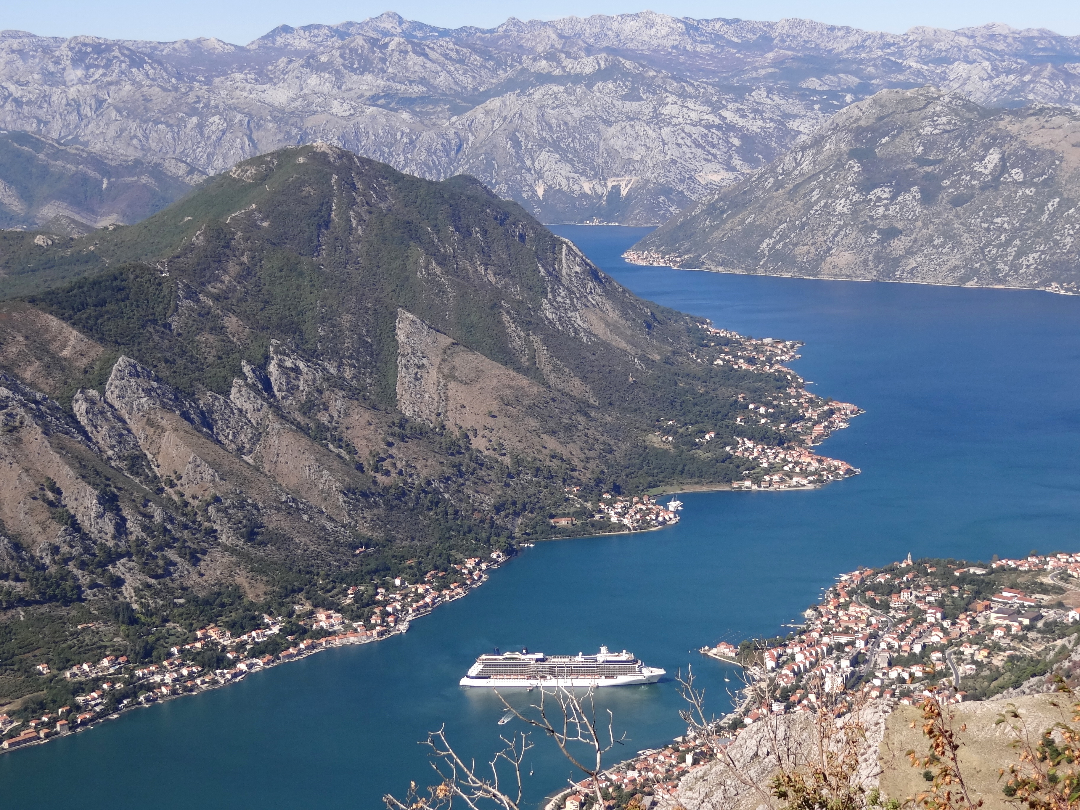 View over Bay of Kotor - Montenegro - 04